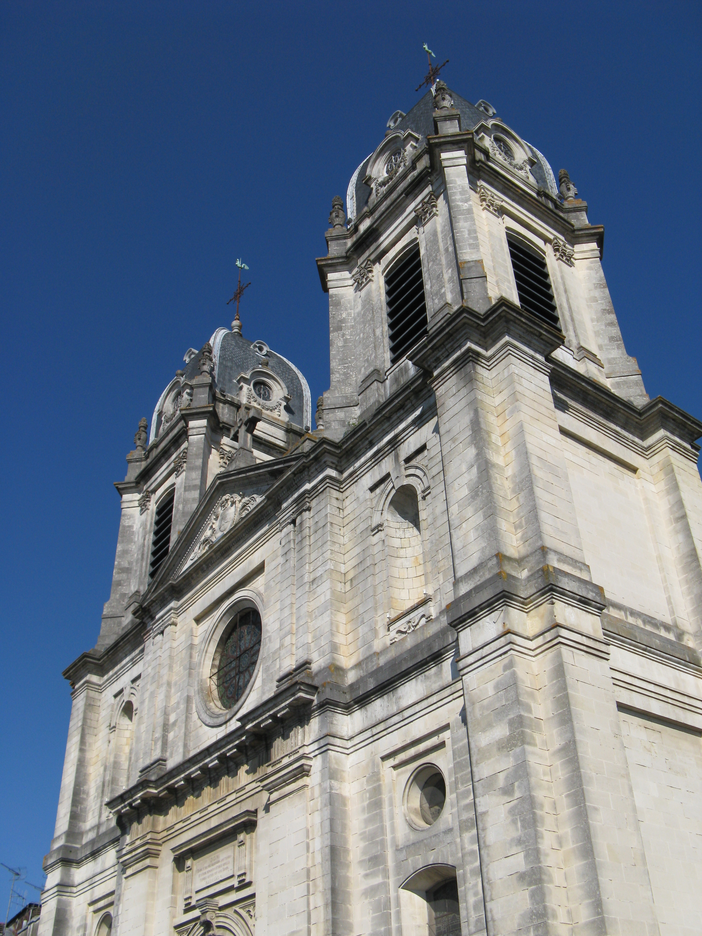 Cathédrale de Dax 1